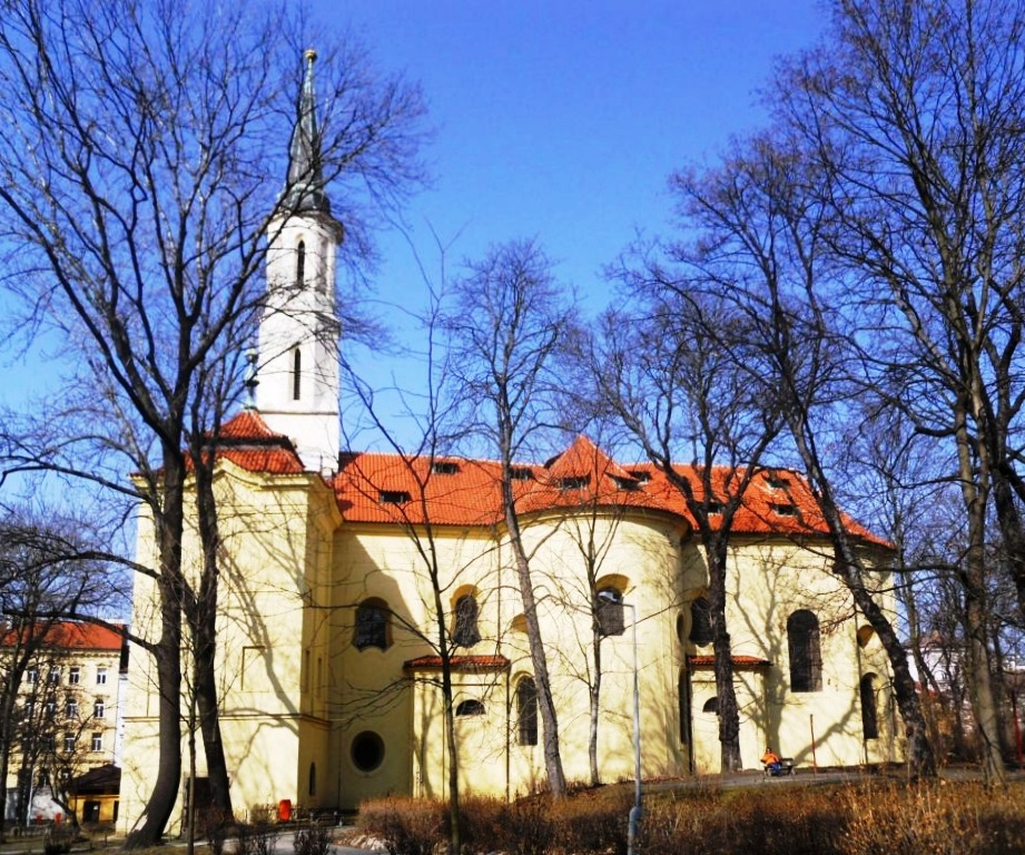 Prague 2 St Catharine church